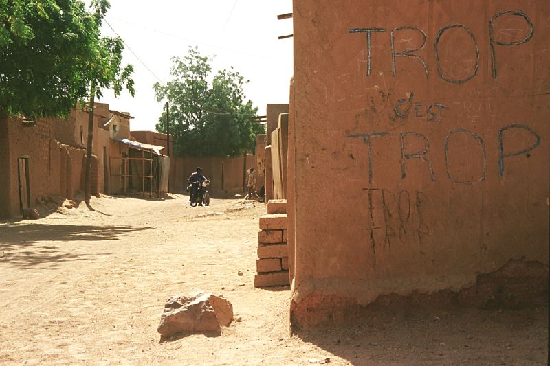 Graffiti on a wall ("Trop c'est trop","too much is too much") in Zinder, Niger. Men on Motorcycle in background.